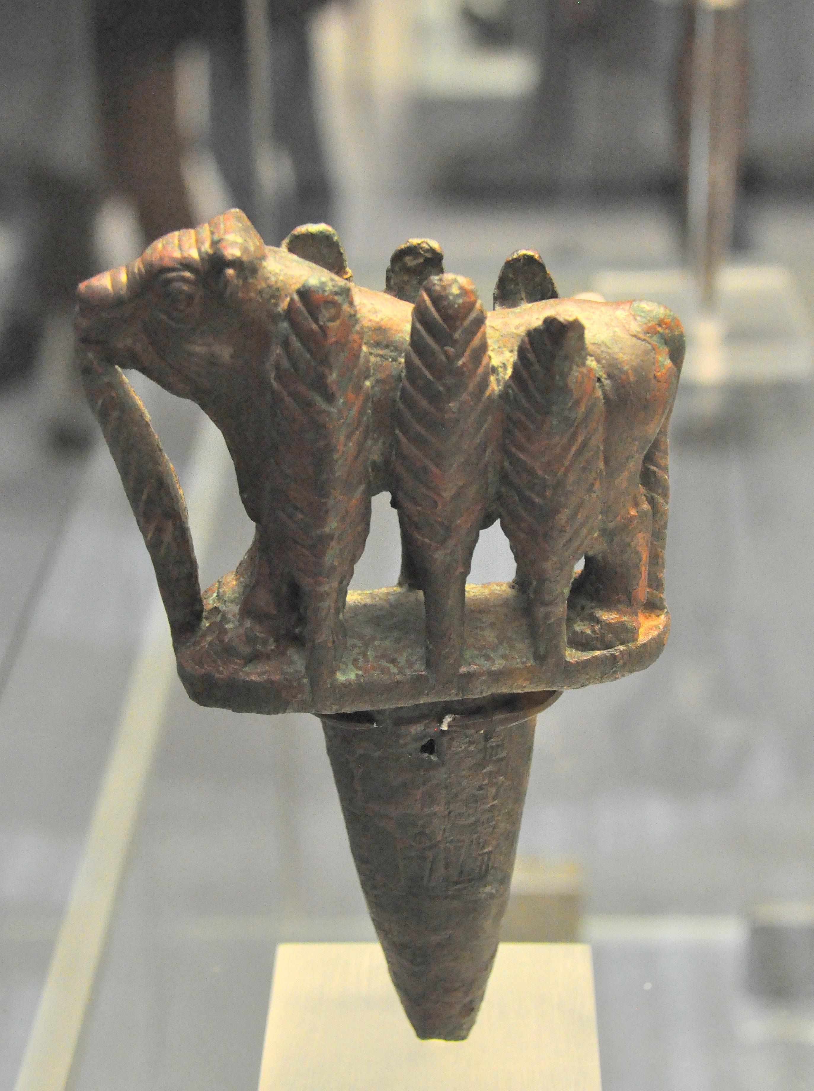 Foundation peg from the temple of goddess Nanshe at the city Sirara (modern-day Zerghul), rebuilt by Gudea, ruler of Lagash. Bull calf in reed marsh. Copper alloy. Circa 2130 BCE. Probably from Sirara, Southern Mesopotamia, modern-day Iraq. The British Museum, London.